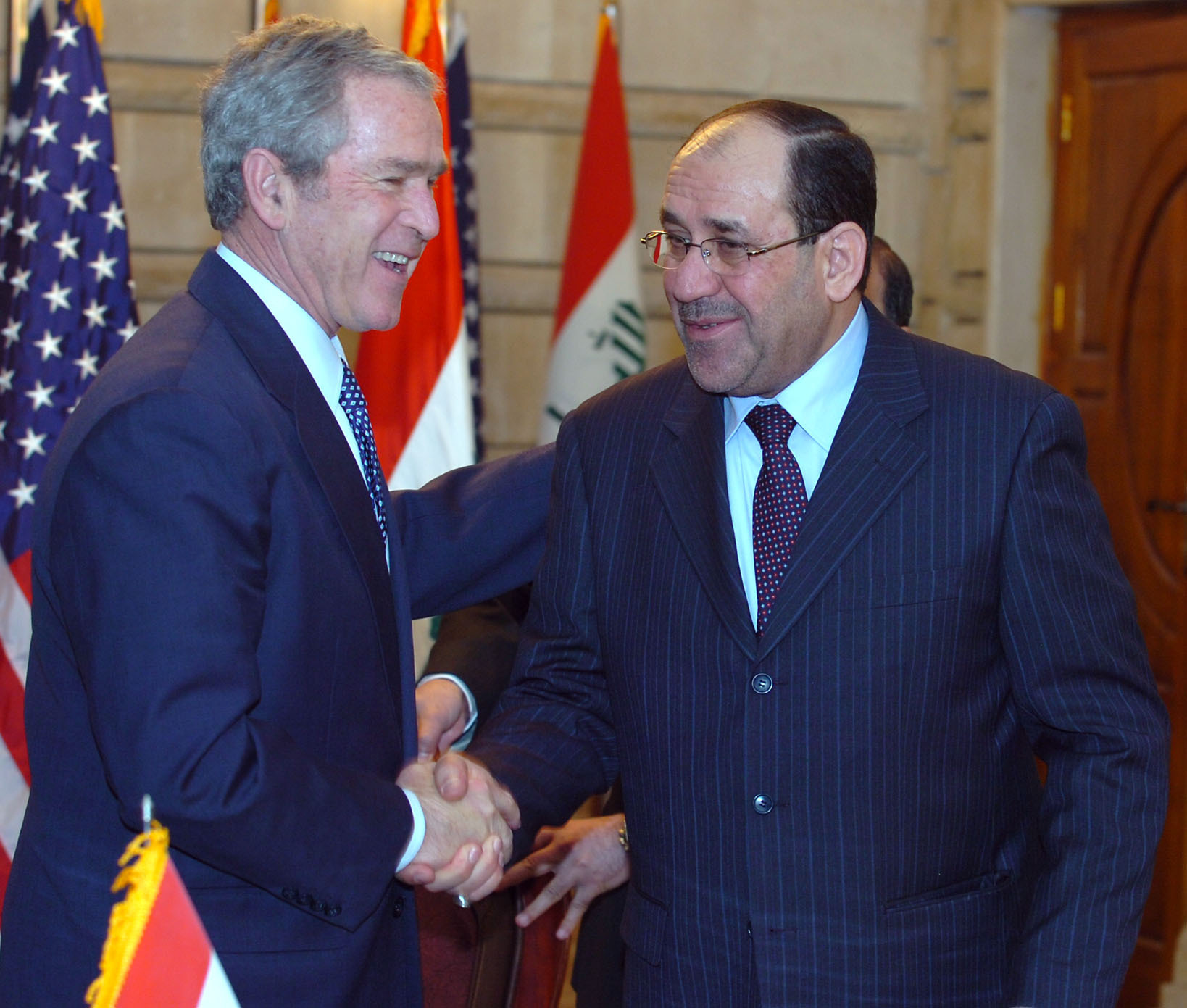 U.S. President George W. Bush shakes hands with Iraqi Prime Minister Nuri Kamel al-Maliki after a press conference held in Baghdad, Iraq Dec. 14th, 2008.